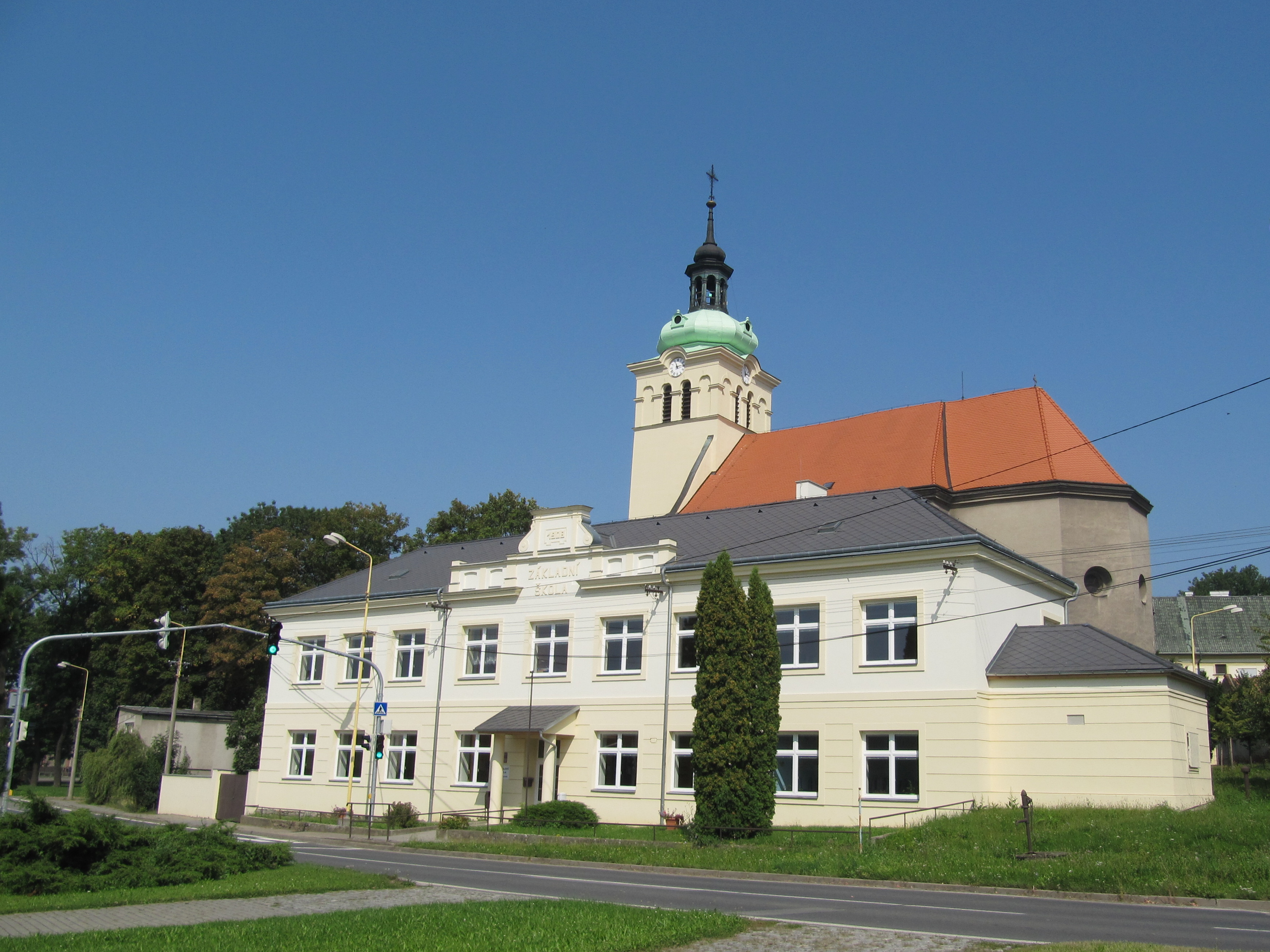 Rokytnice, Czech Republic, Přerov District. Primary School and church of St. James the Greater. This photograph was taken within the scope of the third year of the 'Czech Municipalities Photographs' grant.